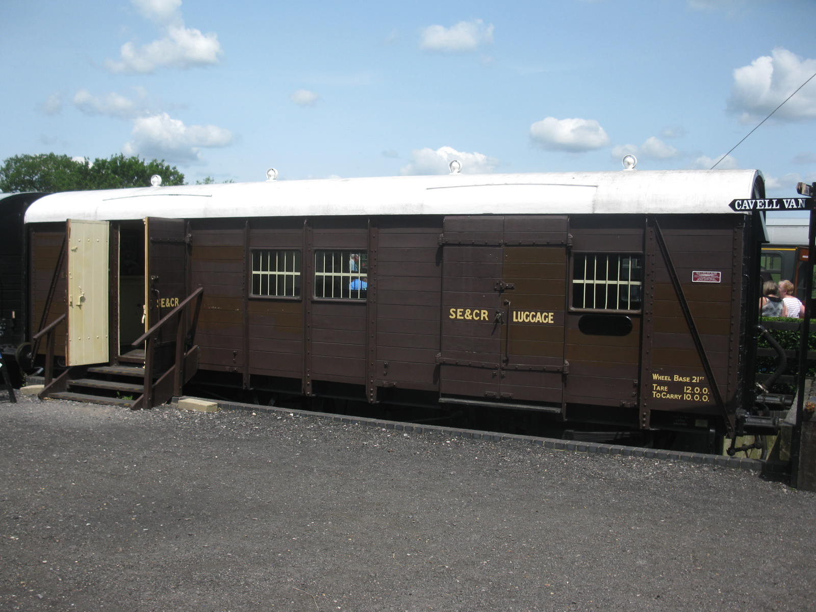 The Cavell van as restored on the Kent and East Sussex Railway. Seen at Northiam station.